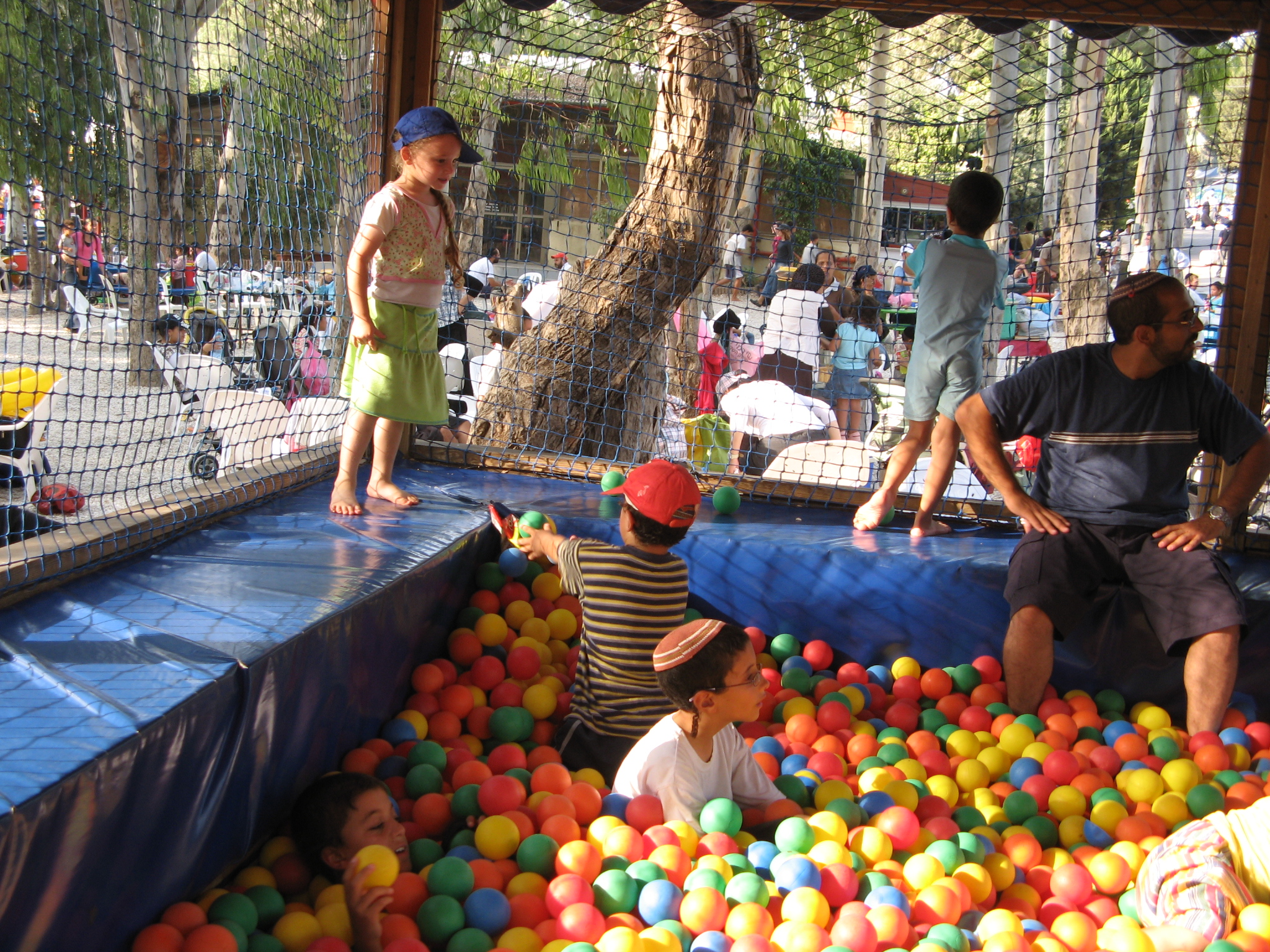 Children in ball pit in Nachshonit